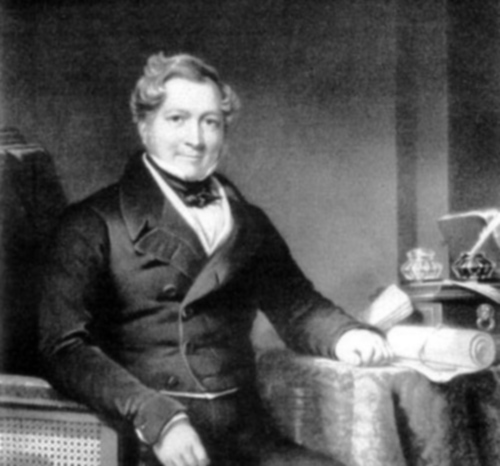 Portrait of John Heatcoat